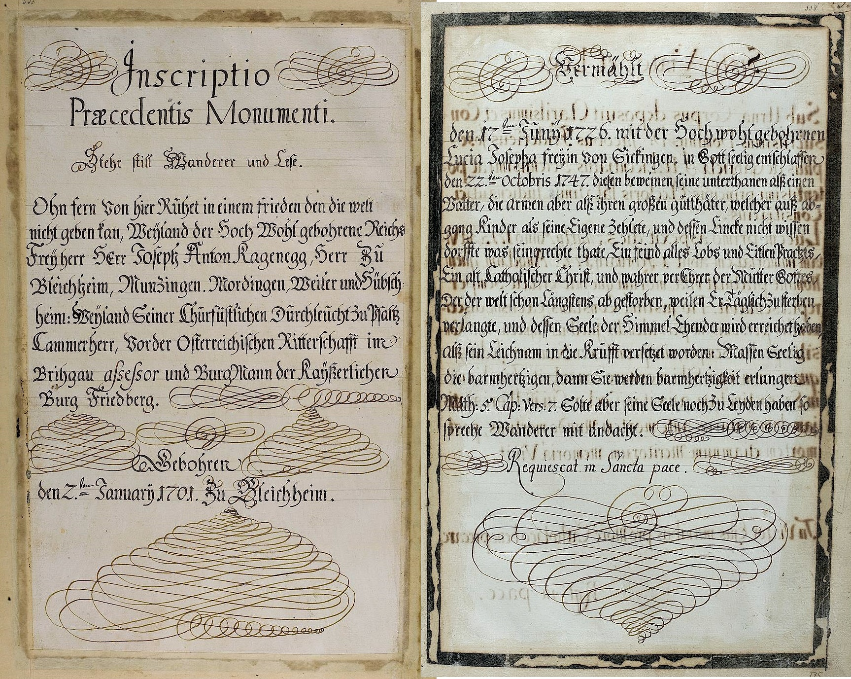 Epitaphinschrift Joseph Anton von Kageneck (1701–1751), St. Sebastian Mannheim (nicht mehr vorhanden)